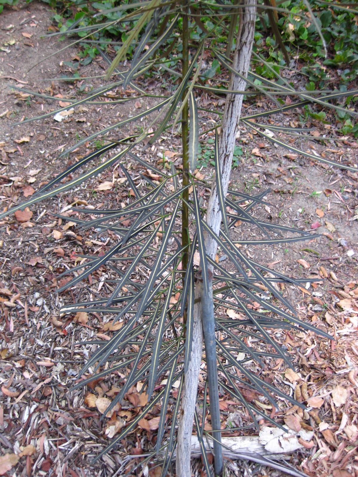 Photographed Mildred E. Mathias Botanical Garden at UCLA (Los Angeles, California) in November